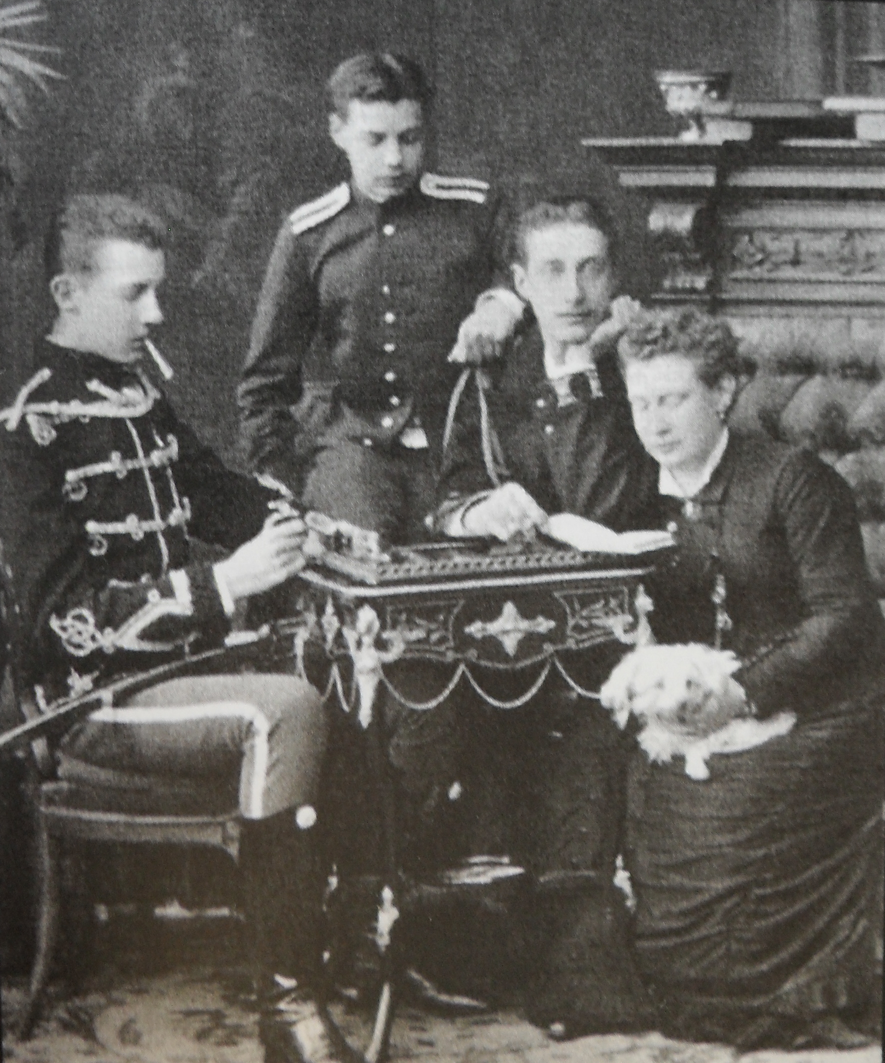 Grand duke Dimitri Constantinovich and his siblings